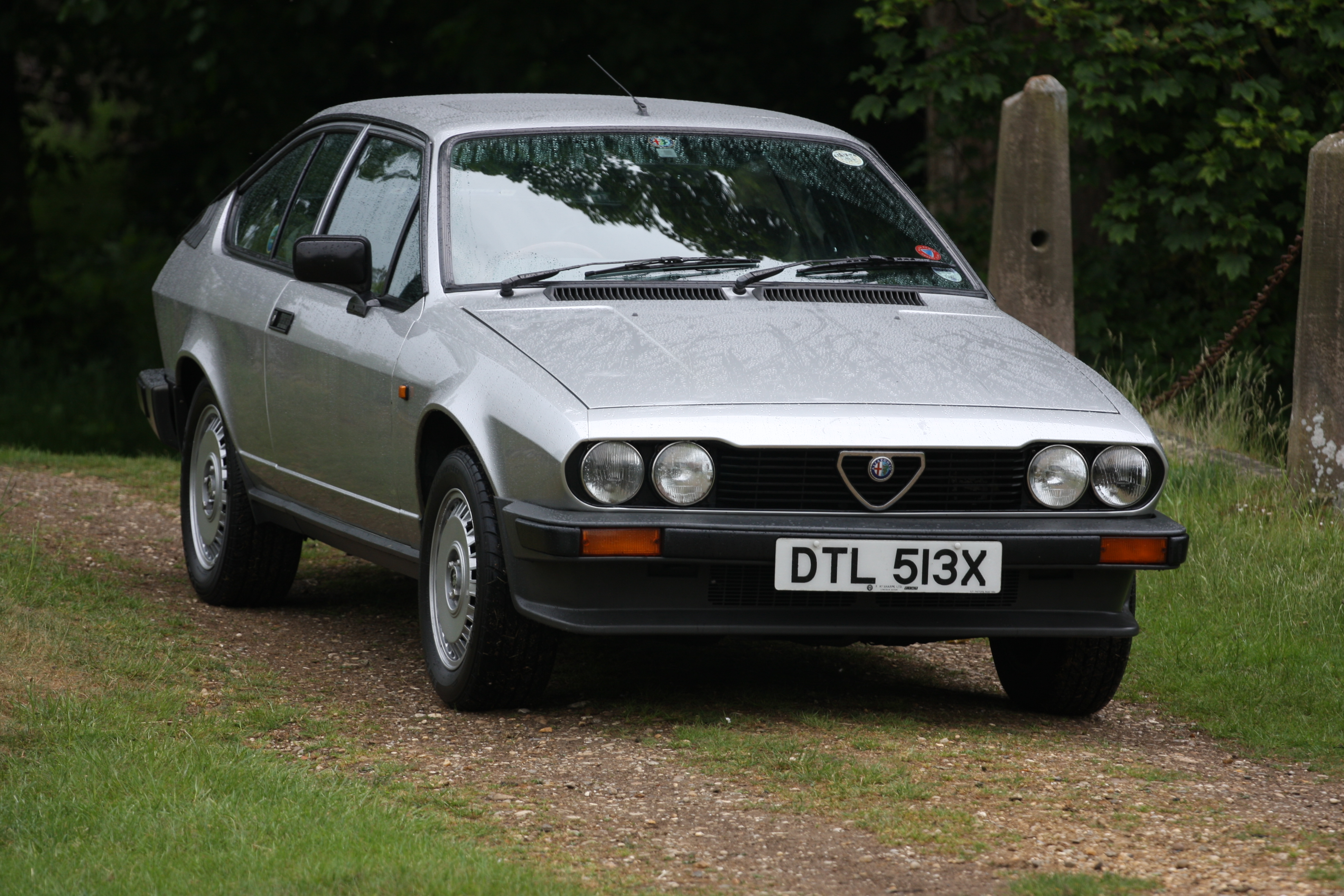 Auto Italia Stanford Hall June 2010